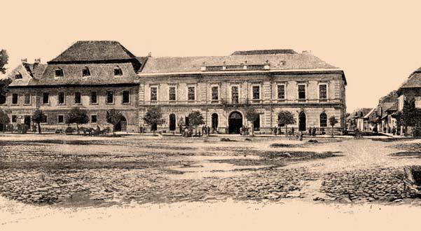 Baia Mare around 1890